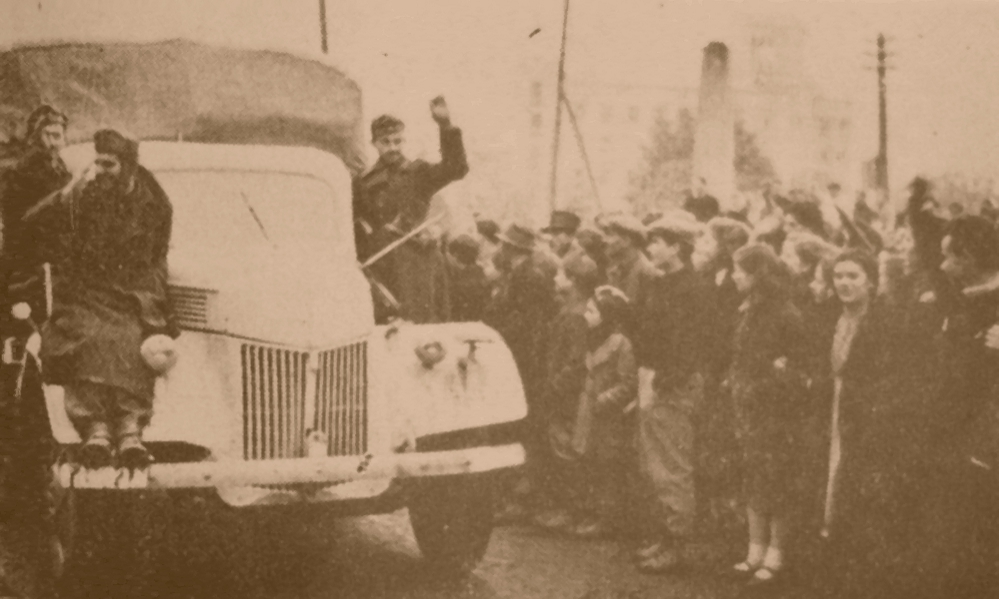 Bulgarian People's Army enters Skopje on November 14, 1944.